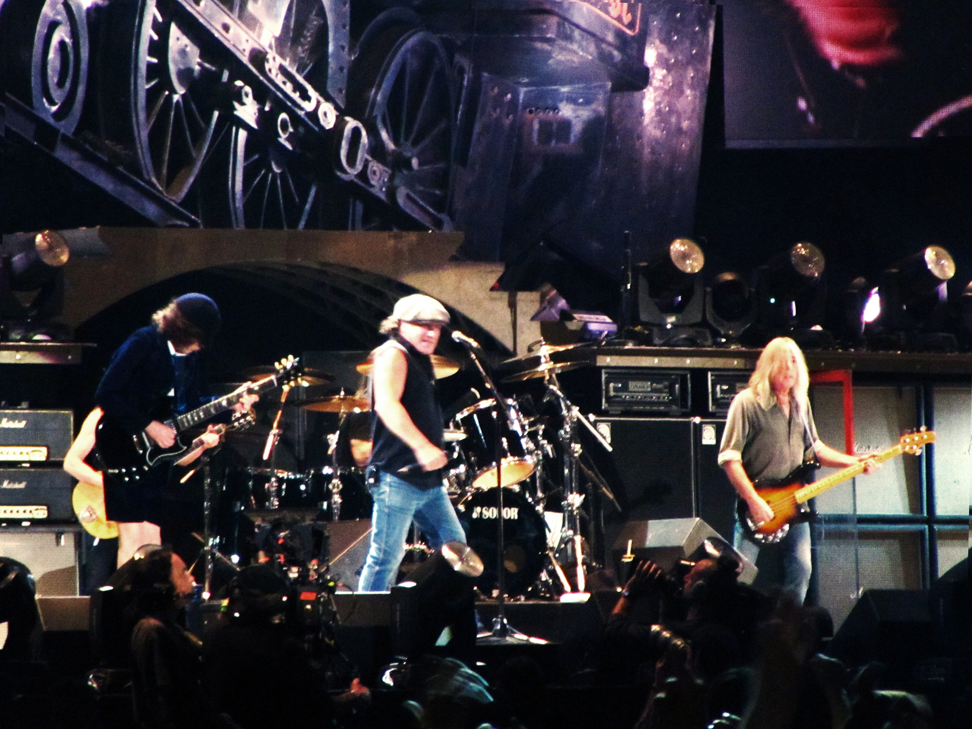 AC/DC Argentina 2009 - Estadio Monumental, Buenos Aires. Live at River Plate. Black Ice World Tour.